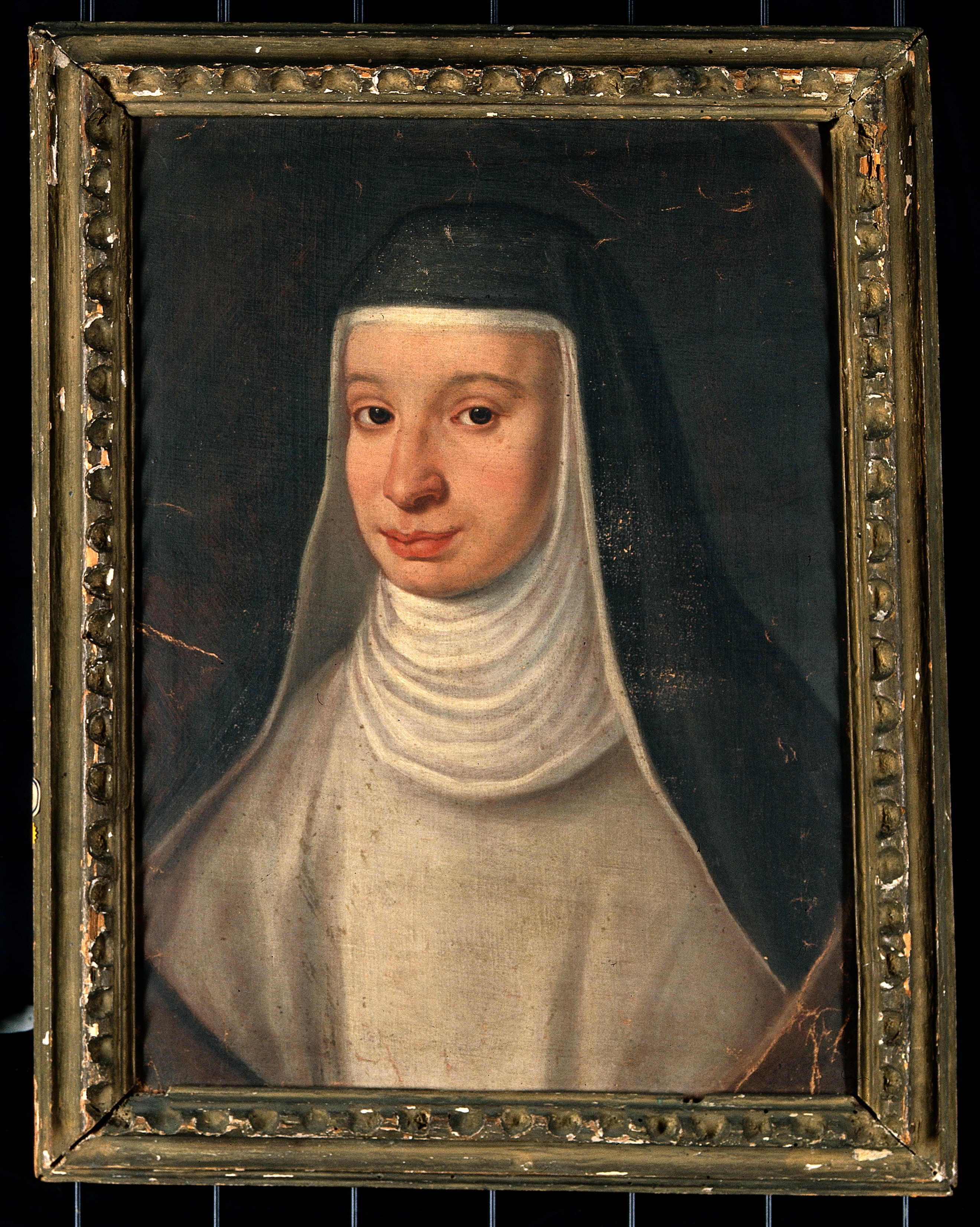 A nun, traditionally identified as Suor Maria Celeste, daughter of Galileo Galilei. Oil painting by an unidentified painter. Iconographic Collections Keywords: Maria Celeste Galilei